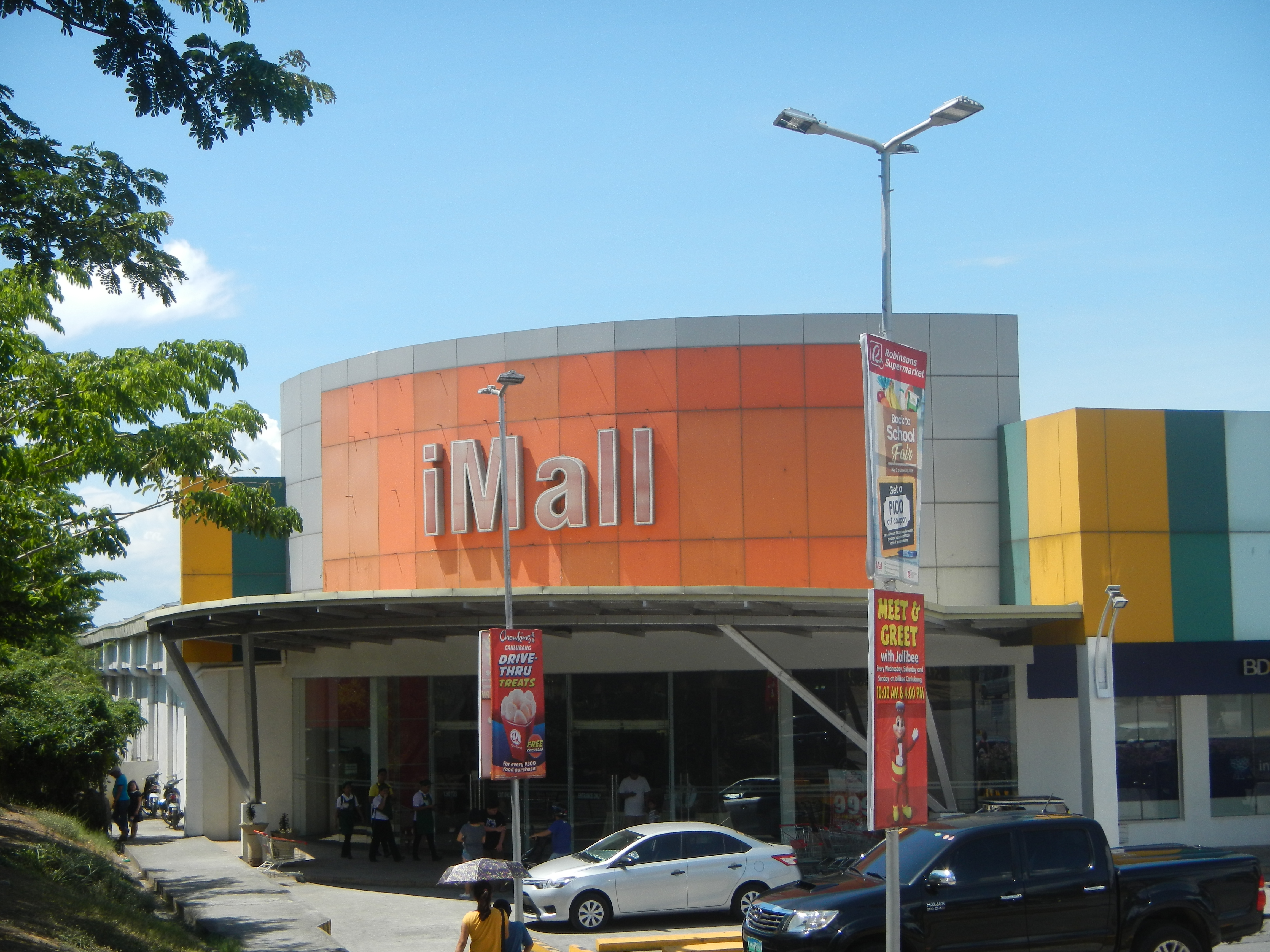 IMall (Canlubang, Calamba City) Jose Yulo Avenue, Canlubang Roman Catholic Diocese of San Pablo Dedication of the Shrine April 20, 1969 Don Bosco Seminary & Diocesan Shrine of Mary Help of Christians (Don Bosco College, Canlubang) Don Bosco College, Canlubang Barrio Canlubang Jose Yulo Avenue 14°12'42"N 121°6'57"E National Highway (Calamba Poblacion-Mayapa) of Maharlika Highway (Calamba City section) Pan-Philippine Highway; in Barangay Canlubang, Calamba, Laguna from Calamba Poblacion (Note: Judge Florentino Floro, the owner, to repeat, Donor Florentino Floro of all these photos hereby donate gratuitously, freely and unconditionally Judge Floro all these photos to and for Wikimedia Commons, exclusively, for public use of the public domain, and again without any condition whatsoever).